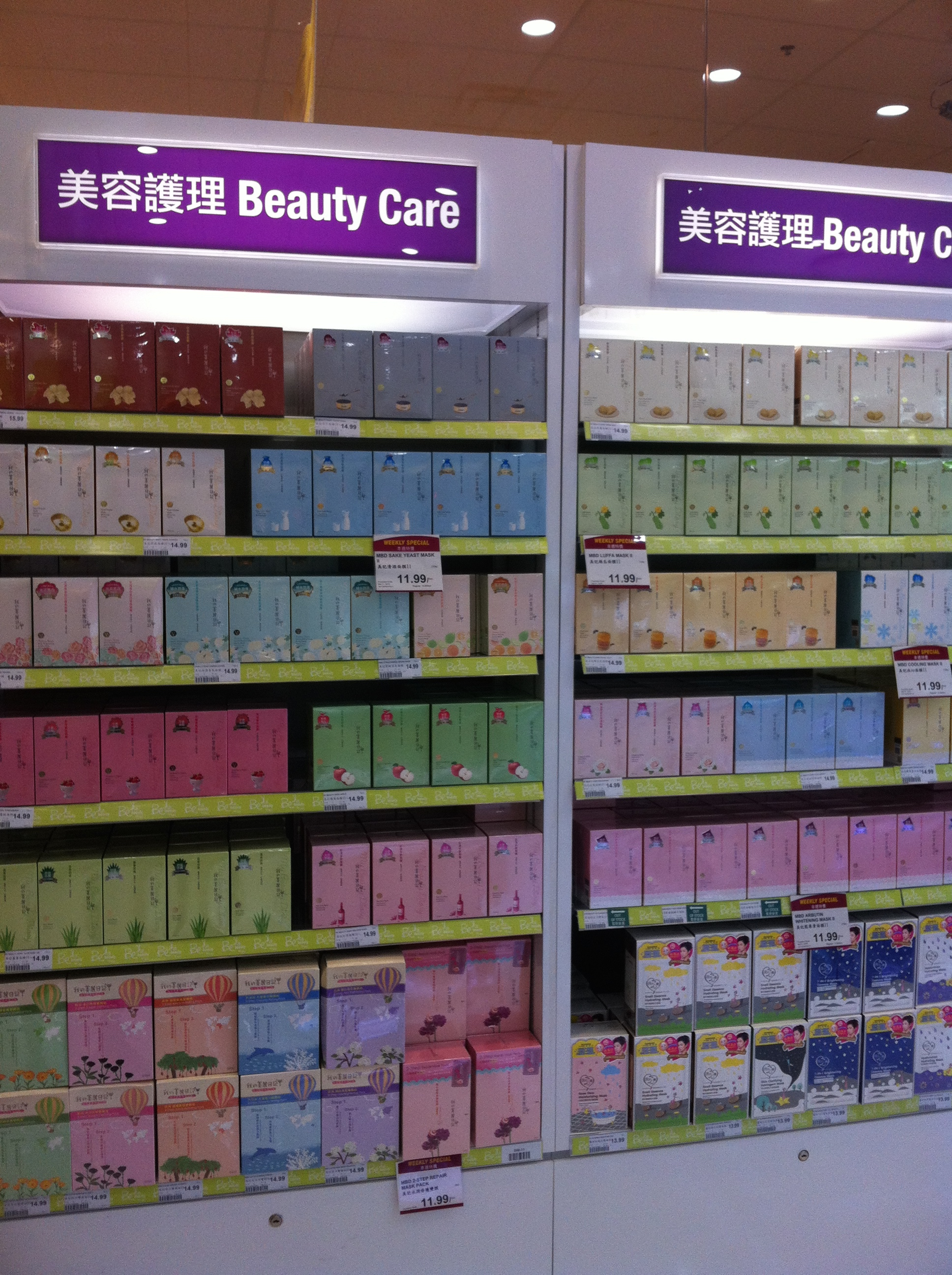 My Beauty Diary masks are available in T&T Supermarket in Vancouver, Canada.中文（中国大陆）: 在加拿大温哥华大统华超市销售的我的美丽日记面膜。中文（台灣）: 在加拿大溫哥華大統華超市銷售的我的美麗日記面膜。